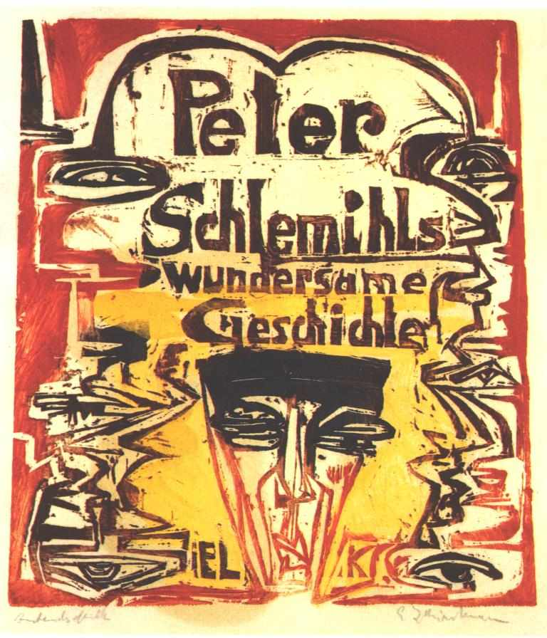 Peter Schemihls miraculous story